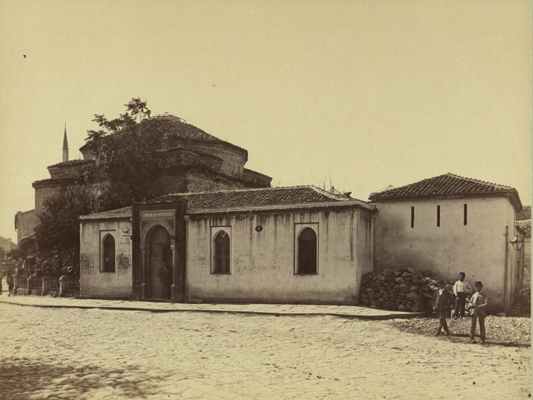 International Fair Plovdiv, Bulgaria, 1892